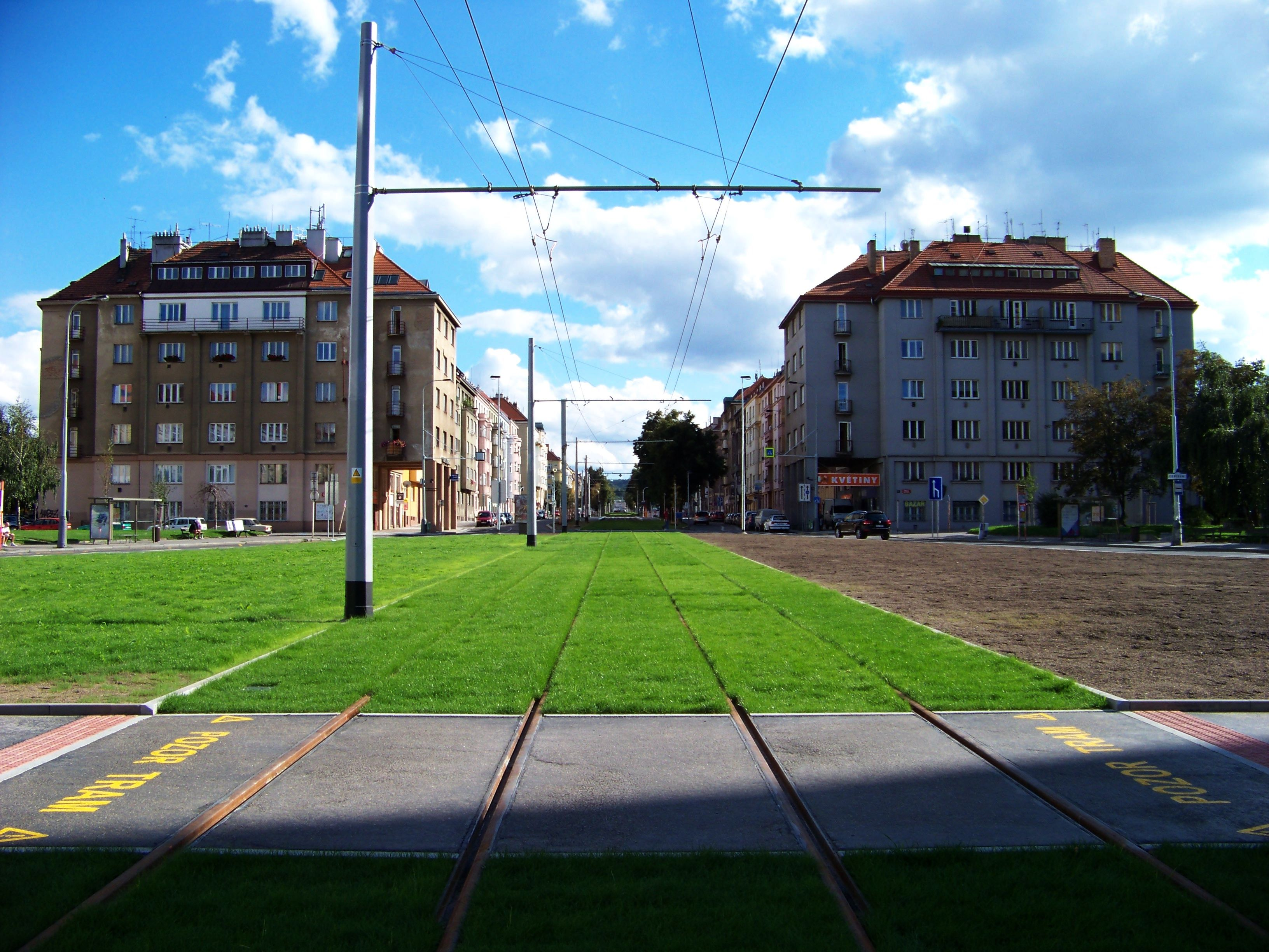 Prague-Dejvice and Bubeneč, the Czech Republic. Jugoslávských partyzánů street, former tram loop Podbaba and a new grass-covered track.